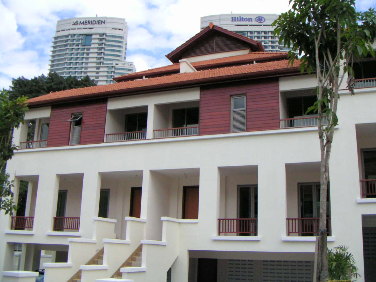 A picture of a house in Kuala Lumpur.